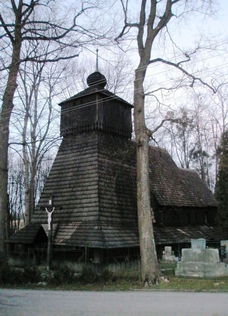 Wooden Corpus Christi Catholic Church (former Lutheran Church) in Guty